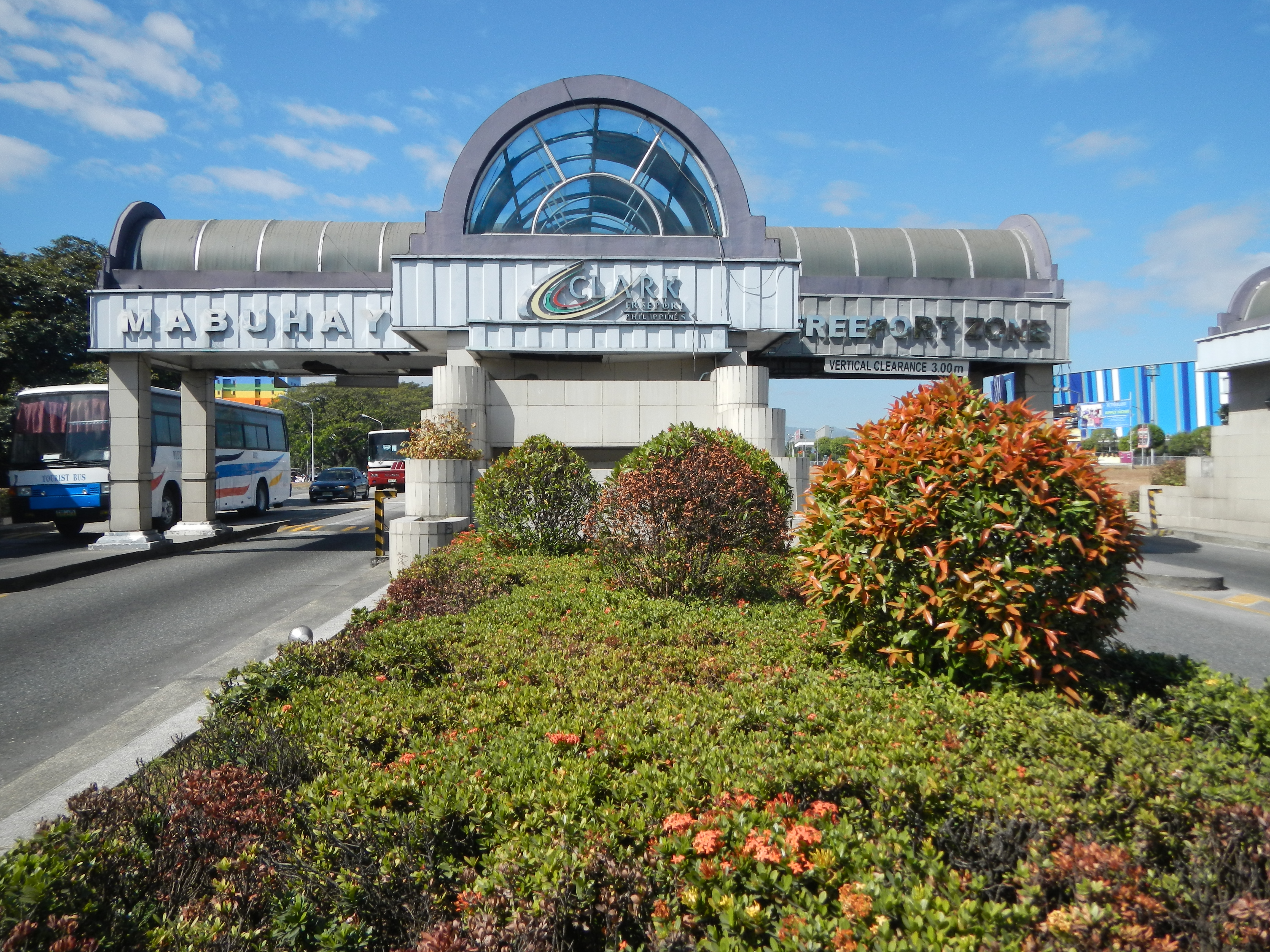 Upload Wizard photos (general description of the landmarks, angle by angle photography of the city, town, rivers, bridges and interesting points) of Angeles City [1] Main gate beside the Salakot Bayanihan Park, towards -- the Clark Freeport Zone [2] which is a redevelopment of the former Clark Air Base, a former United States Air Force base in the Philippines. It is located on the northwest side of Angeles City [3] [4] and on the west side of Mabalacat City in the province of Pampanga located about 40 miles or 60 km northwest of Metro Manila; Clark Air Base and Freeport - Clark Air Base[5] - in 1995, following years of neglect, cleanup and removal of volcanic ash deposits at the former Clark AB began, the former base re-emerged as Clark International Airport [6] and Clark Special Economic Zone[7] (CSEZ) - Philippine Air Force Reserve Command [8] has Garrison/HQ Villamor Air Base, Pasay City, NCR and Air Force City, Clark Air Base, Pampanga the 710th Special Operations Wing [9] is the rapid deployment force of the Philippine Air Force (PAF)[10] has Garrison and HQ in Clark Airbase, Angeles City, Pampanga Main and Villamor Airbase, Pasay City, Metro Manila - beside SM City Clark.